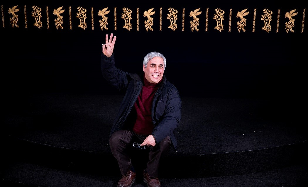 Ebrahim Hatamikia in Fajr International Film Festival